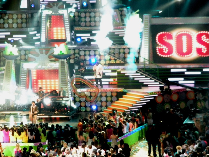 Jonas Brothers performing at the Kids Choice Awards 2009, Pauley Pavilion, Los Angeles, California